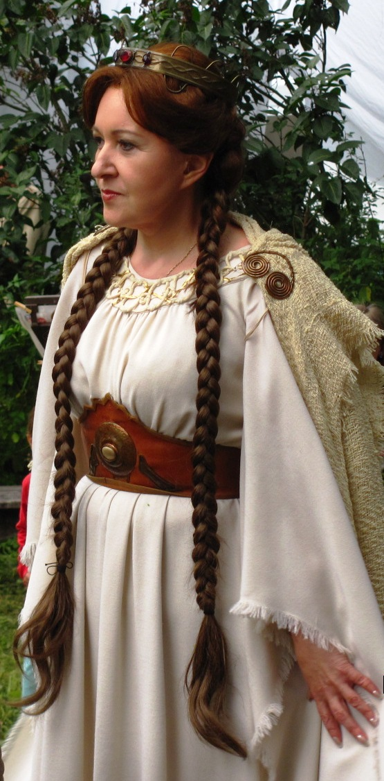 Eva Urbanová, Czech opera singer (soprano)Unknown